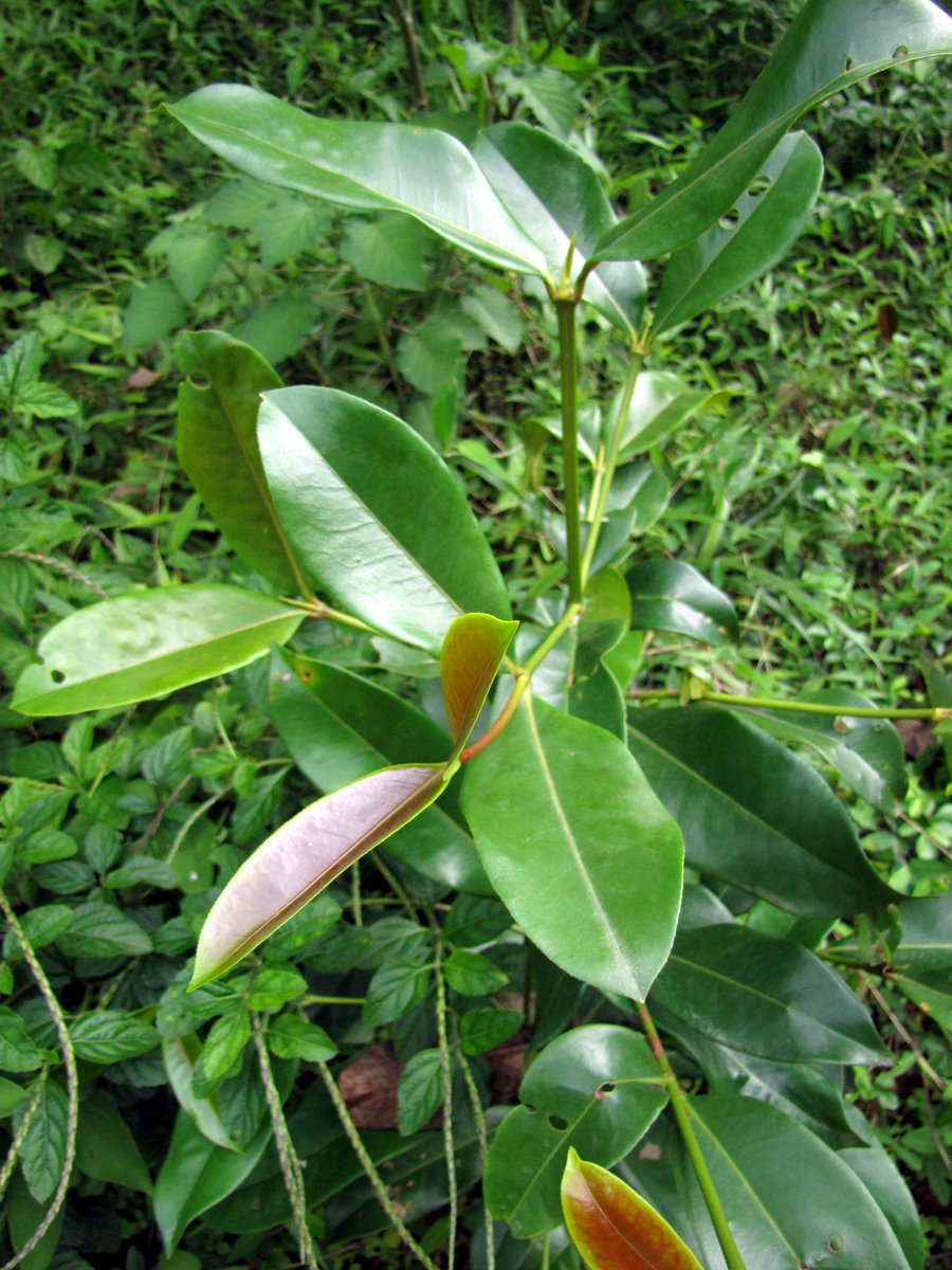 Host of Dysphania fenestrata & Dysphania percota caterpillars.